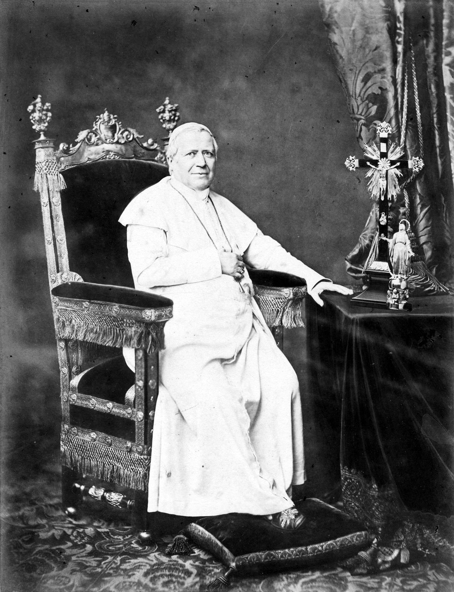 Portrait of Pope Pius IX